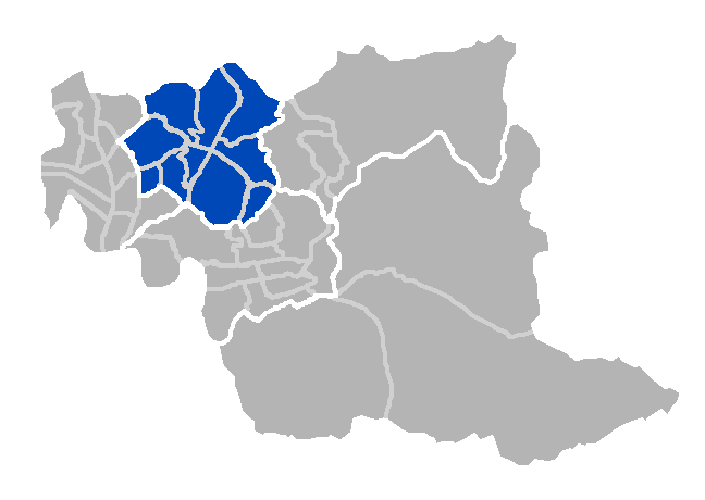 The location of XingLong Sub-District in WenShan District , Taipei City.